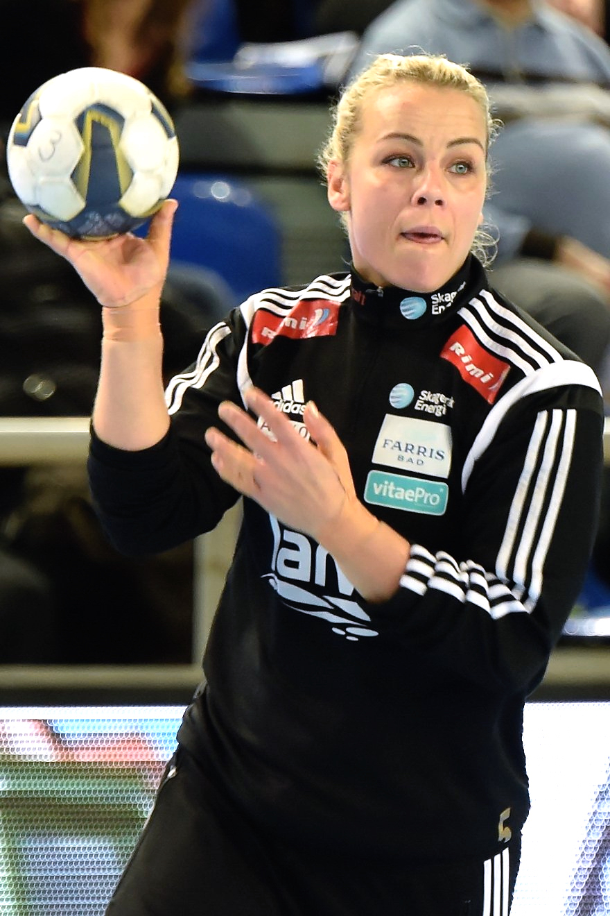 Isabel Blanco - EHF Champion's League, Metz Handball / Larvik HK - 15 november 2014.